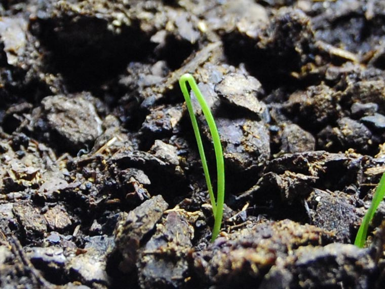 Germinating scallion (spring onion) 10 days after planting, in an indoor garden.